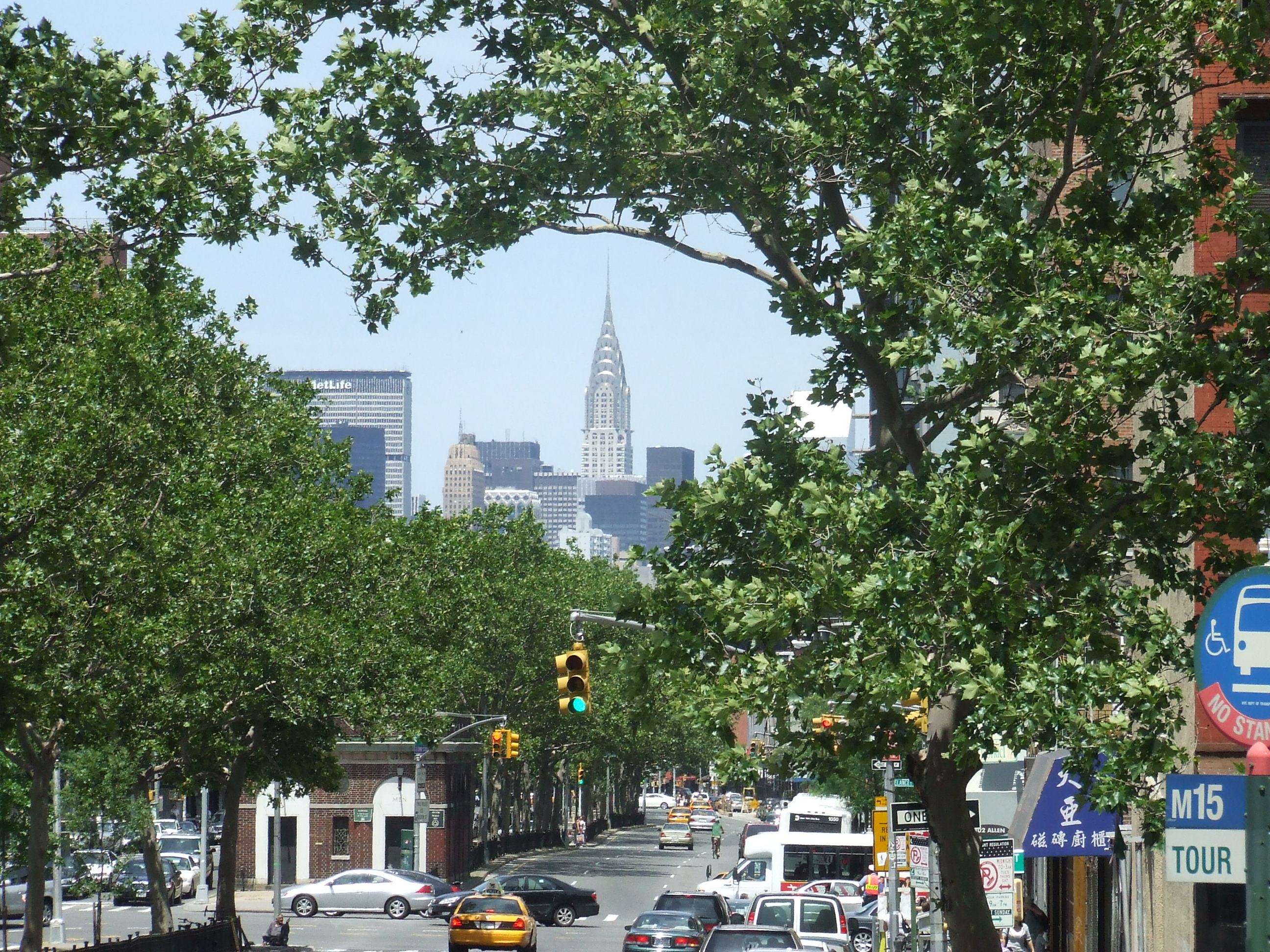 Allen Street in NYC, looking north at Delancey Street